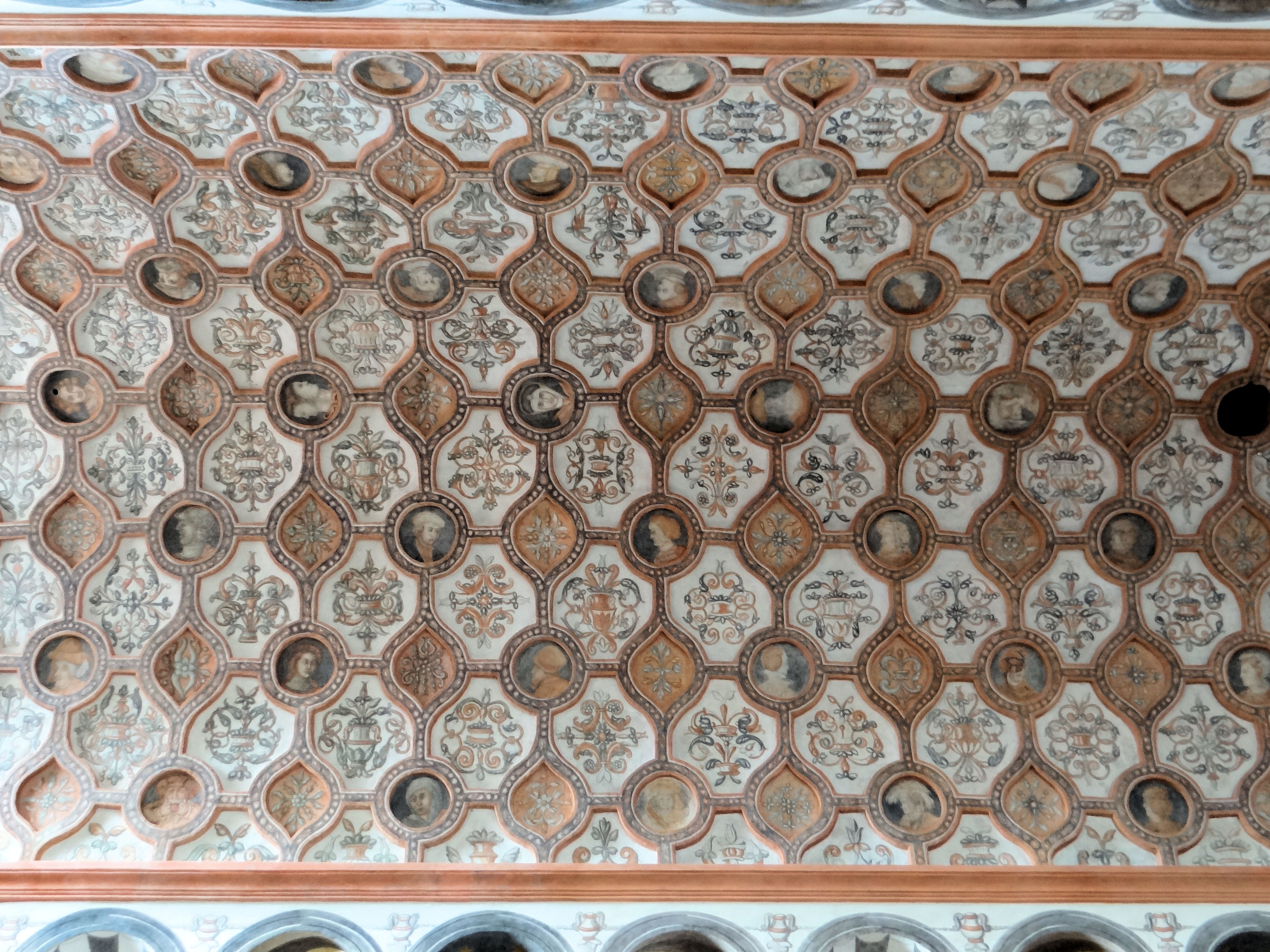 Interior of the Basilica in Pułtusk